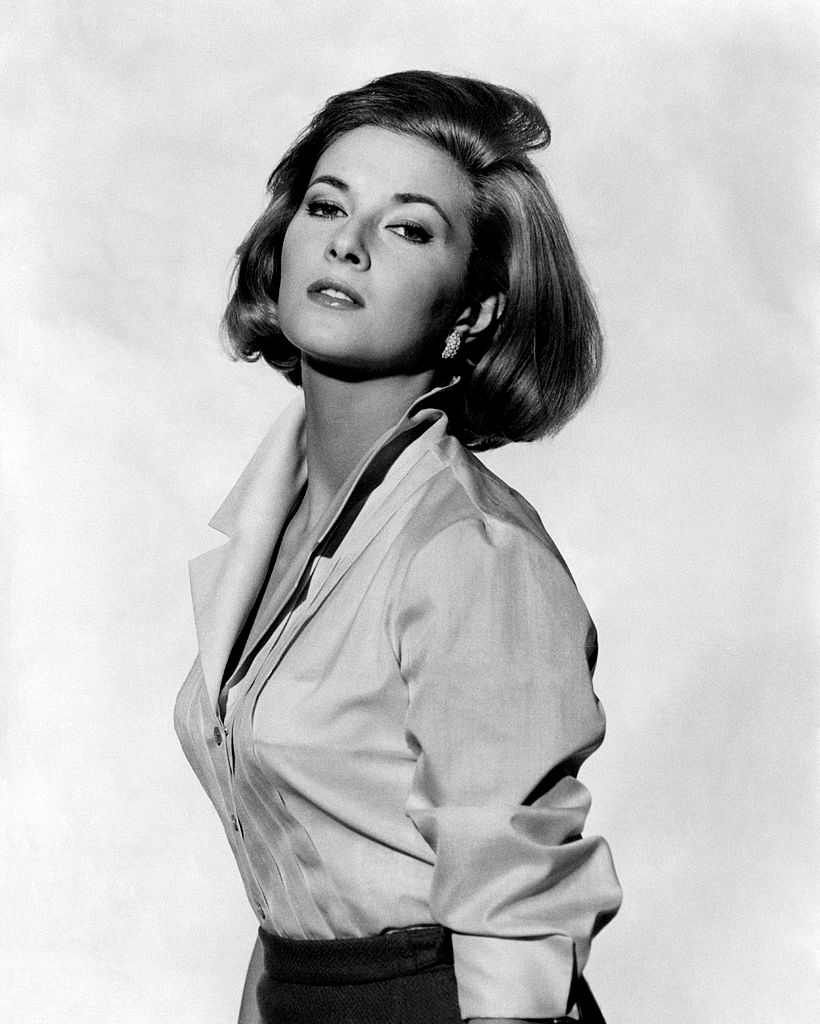 Portrait of Italian actress and model Daniela Bianchi just after she got through the casting for the film From Russia with Love. Rome, 1st April 1963.